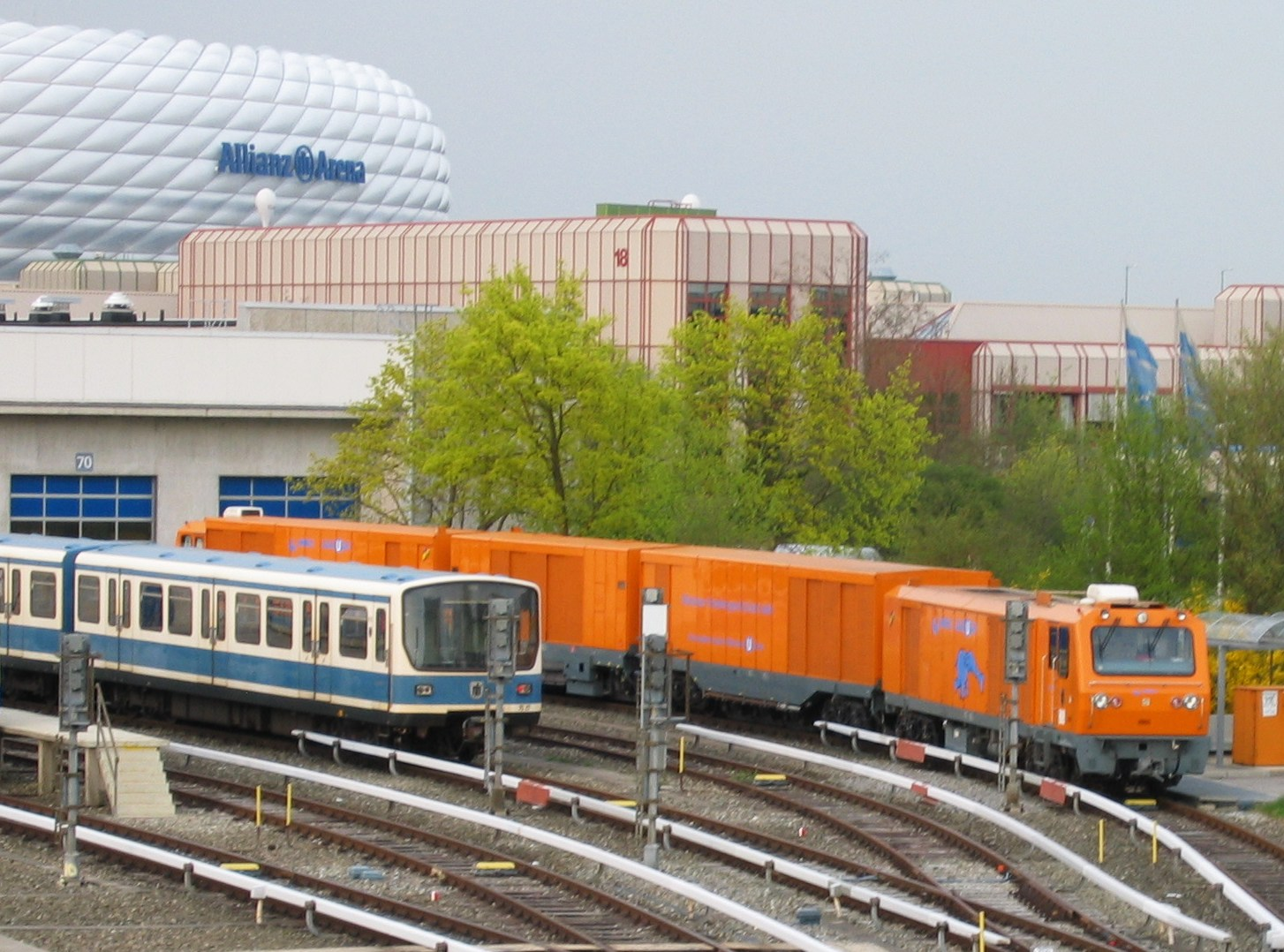 Munich subway track vacuumer train